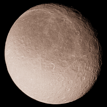 This image of Rhea was acquired by the Voyager 1 spacecraft on November 11, 1980.